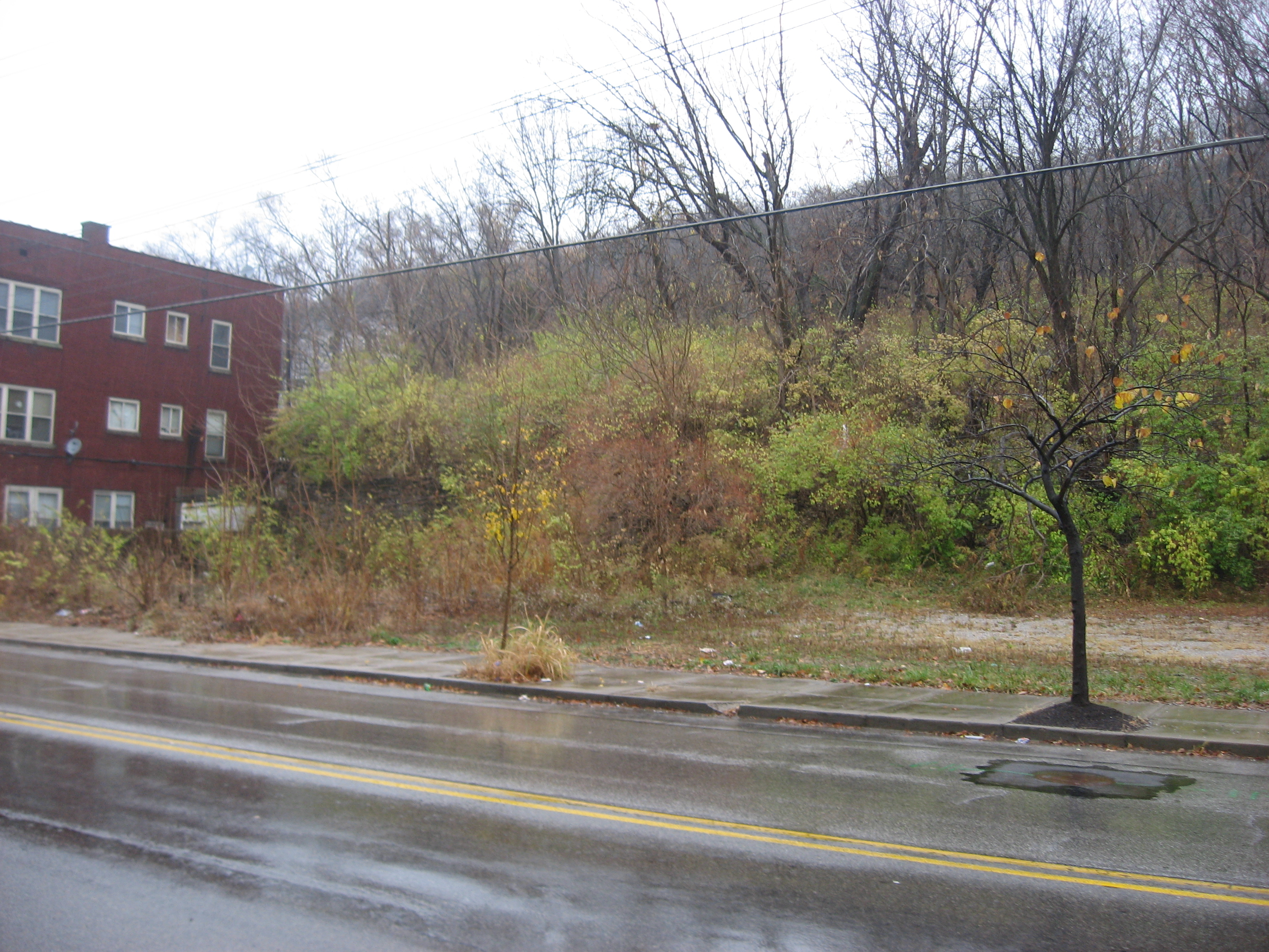 An empty lot at 4024 Eastern Avenue in the Columbia-Tusculum neighborhood of Cincinnati, Ohio, United States. This lot was formerly the location of the Kestler Building; built in 1906, it is listed on the National Register of Historic Places despite having been destroyed.